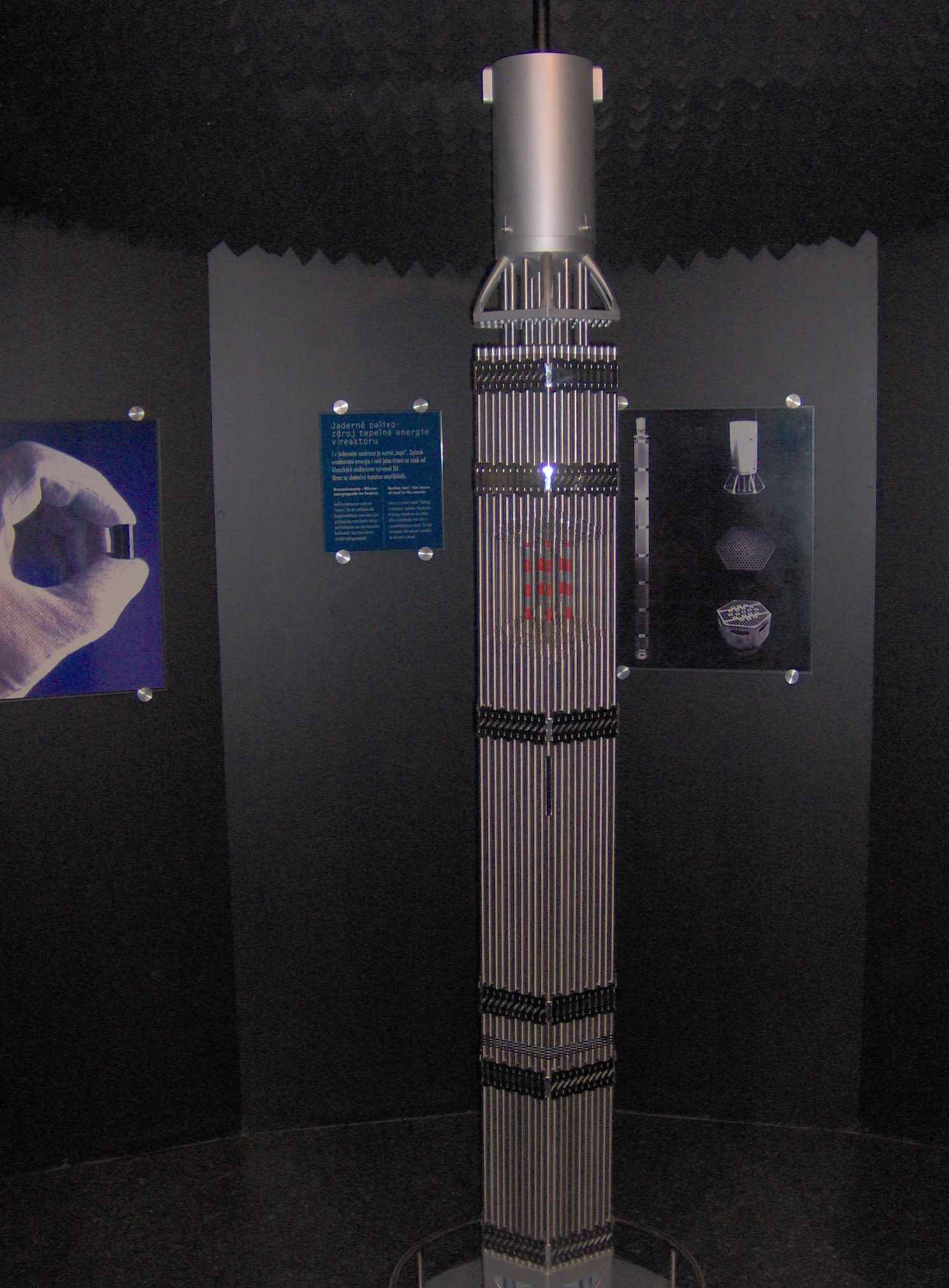 Model of fuel rod in clearing-house of Temelín Nuclear Power Station. Česky: Model palivové tyče v informačním centru Jaderné elektrárny Temelín.